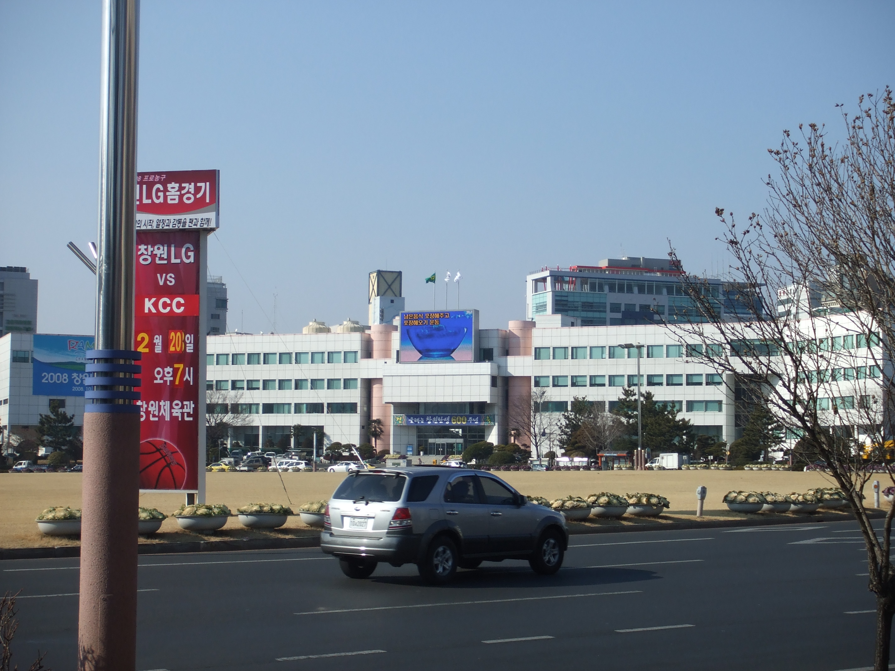 Changwon City Hall.